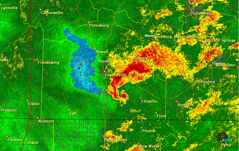 Composite reflectivity radar image of a supercell thunderstorm over Lincoln County, Tennessee at 0119 UTC on April 28, 2014 that spawned an EF3 tornado